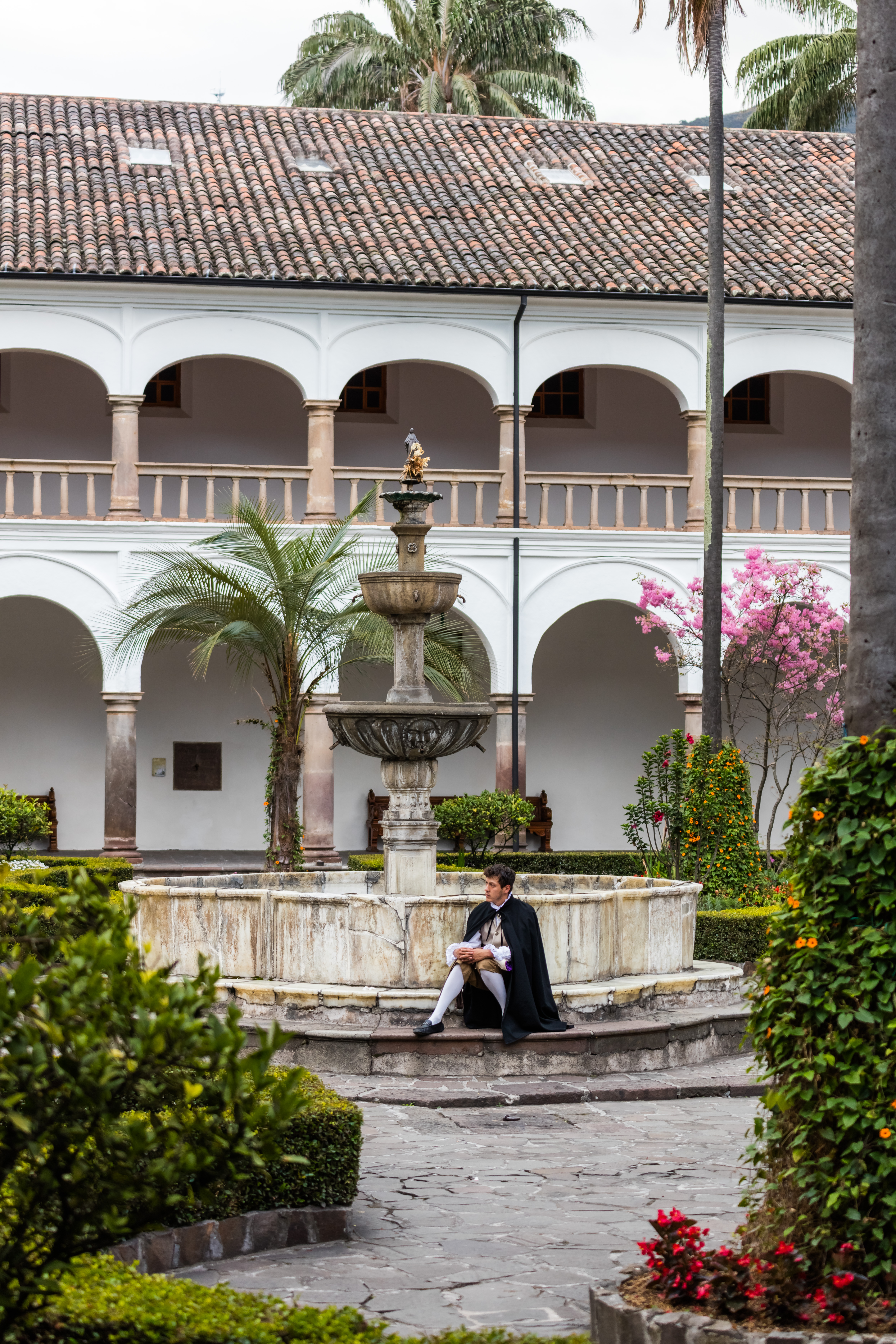 Museum of the church of San Francisco, Quito, Ecuador